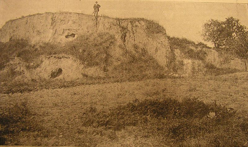 Předmostí in 1896. Image